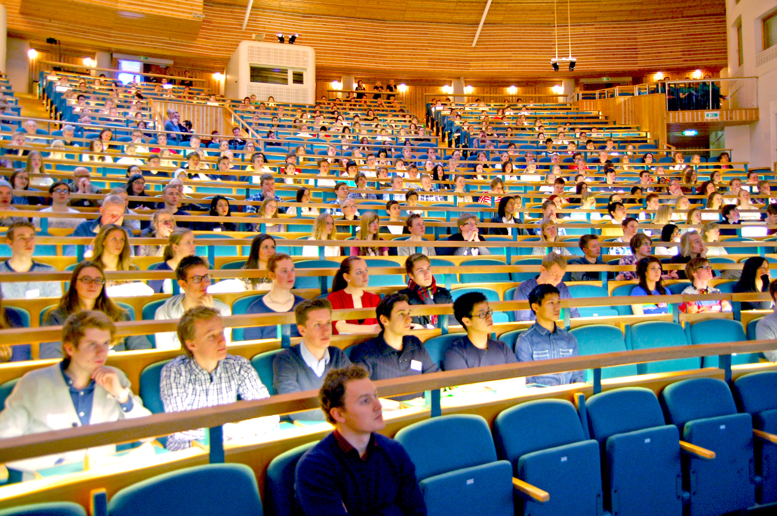 Participants of Berzeliusdagarna 2013 in Aula Magna, Stockholm University